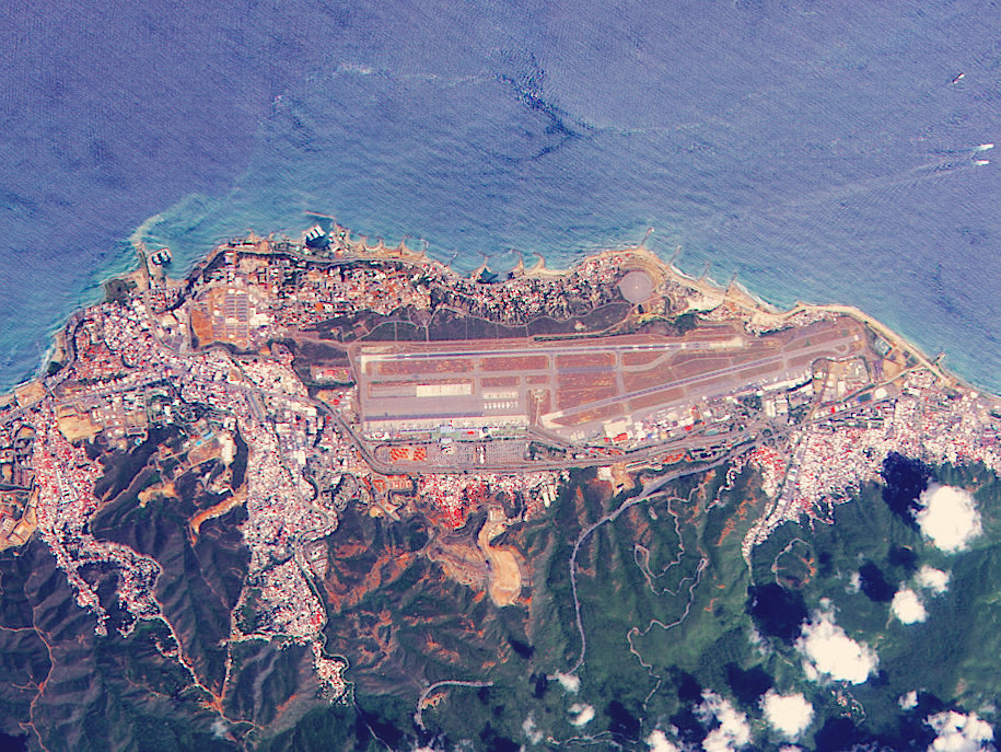 Bolivarian Agency for Space Activities (ABAE) image of Maiquetía International Airport from 10 October 2012.